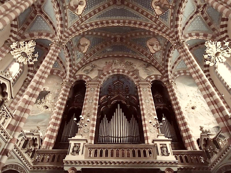 Basilica of Saint Charles Borromeo and Mary Help of Christians (Buenos Aires, Argentina). Vault, colonnade, and organ.